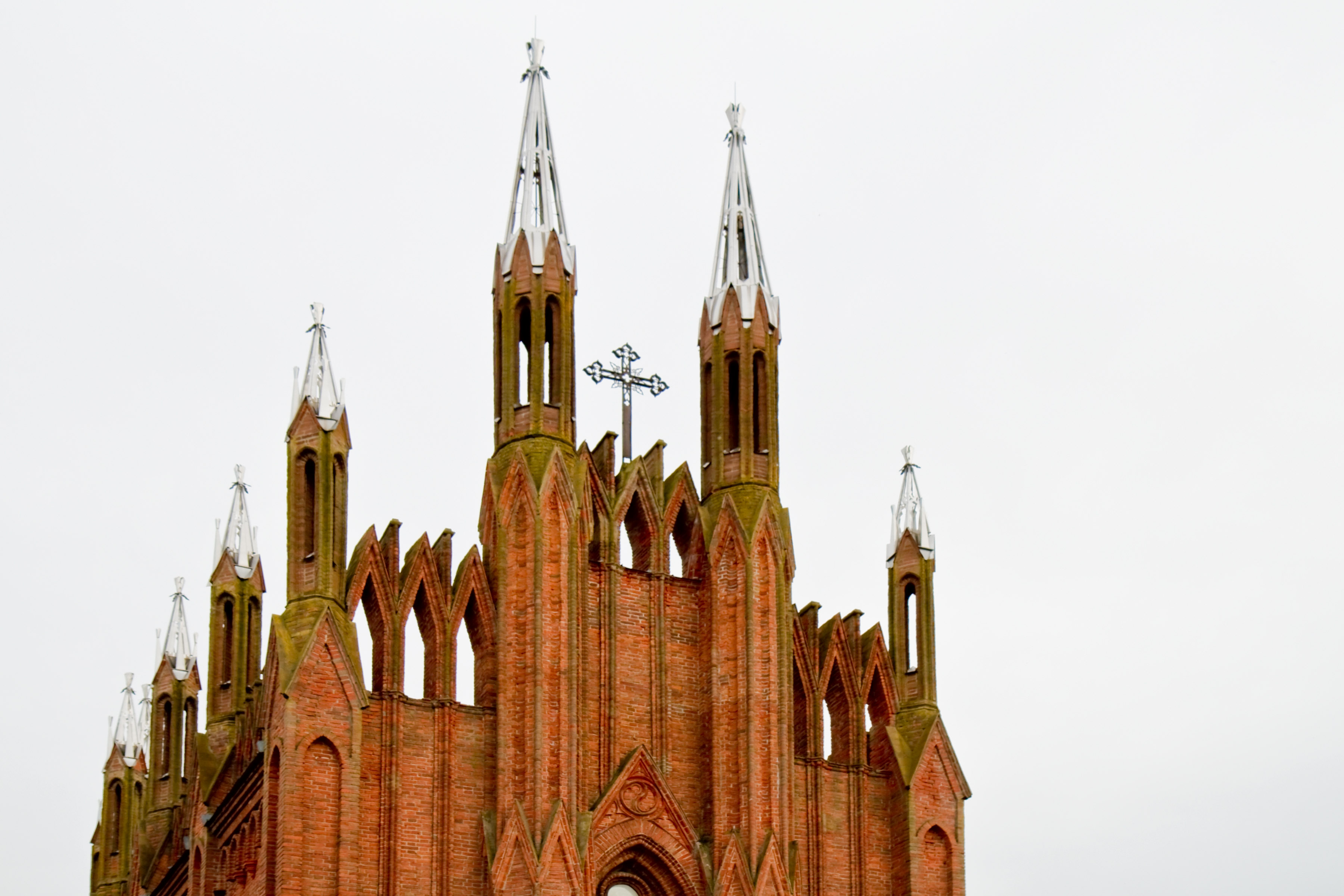 Catholic church or Sarja. Former Catholic church of the Blessed Virgin Mary. Now Church of the Assumption. Sarja village, Vierchniadźvinsk district, Viciebsk province, Belarus.